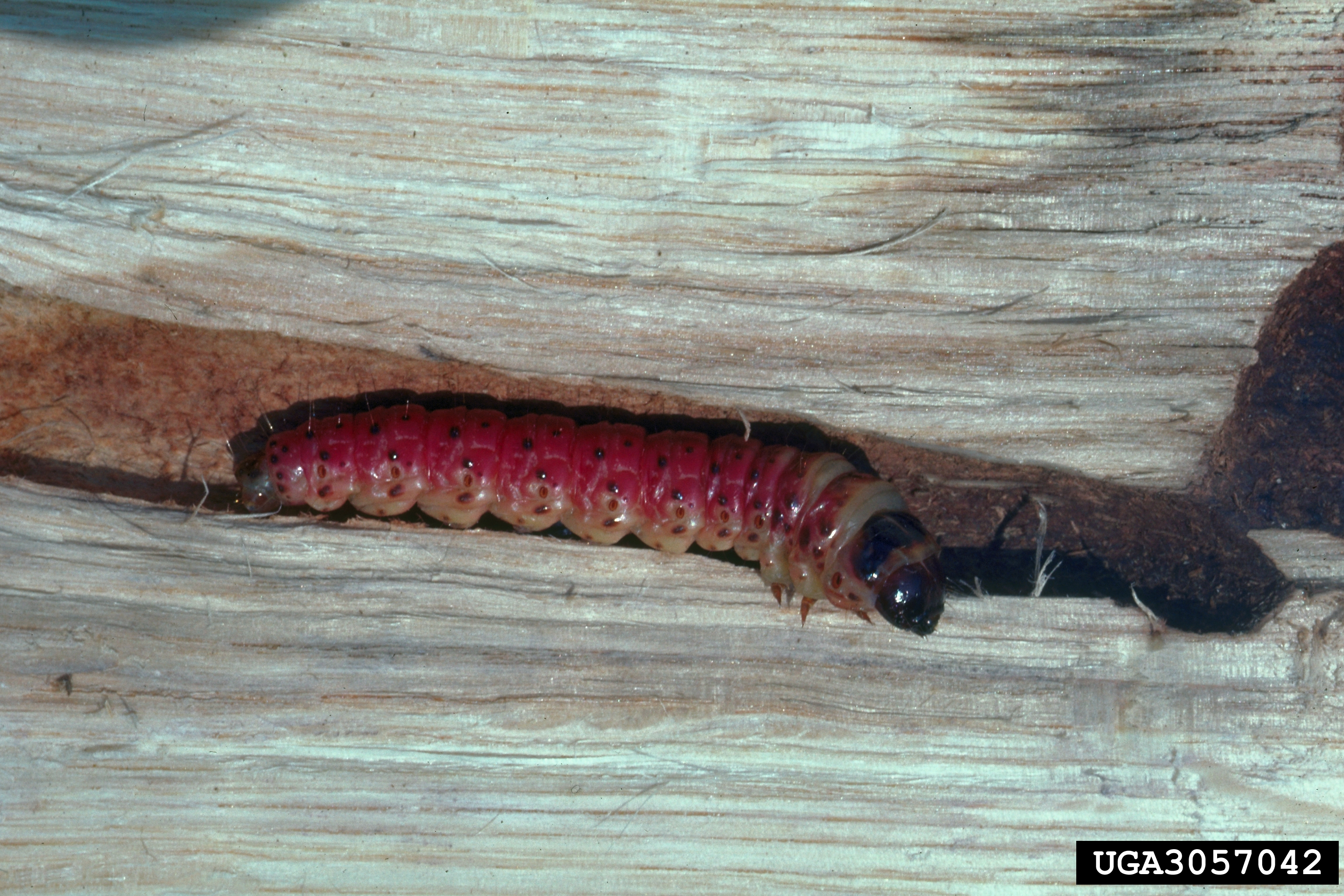 Prionoxystus robiniae larva